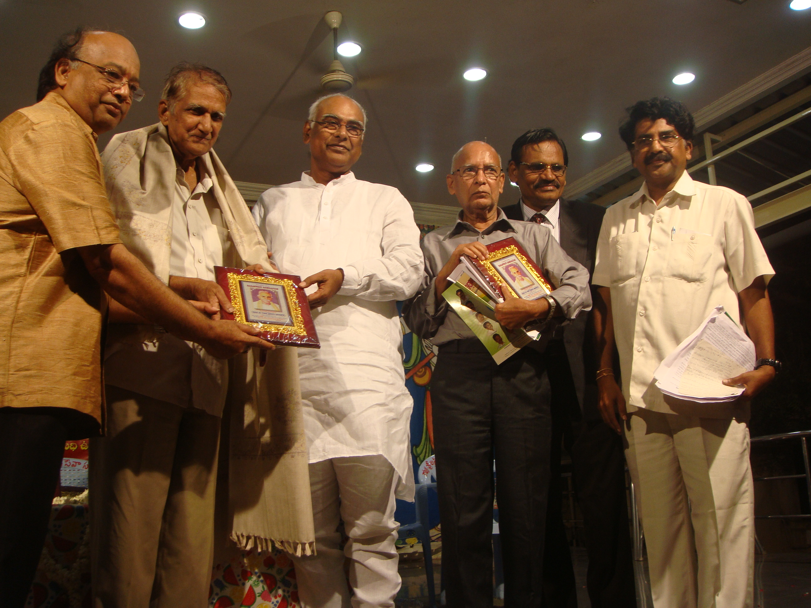 Presenting Award and Felicitating Dr.Velaga Venkatappaiah